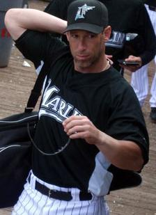 In the Marlins dugout at a spring training game vs the Baltimore Orioles on 2/29/08. I took this picture. 23:51, 29 February 2008 . . Rabbethan . . 300×433 (61 KB) (Orginal description) - Edit of orignanl by Gonzo fan2007